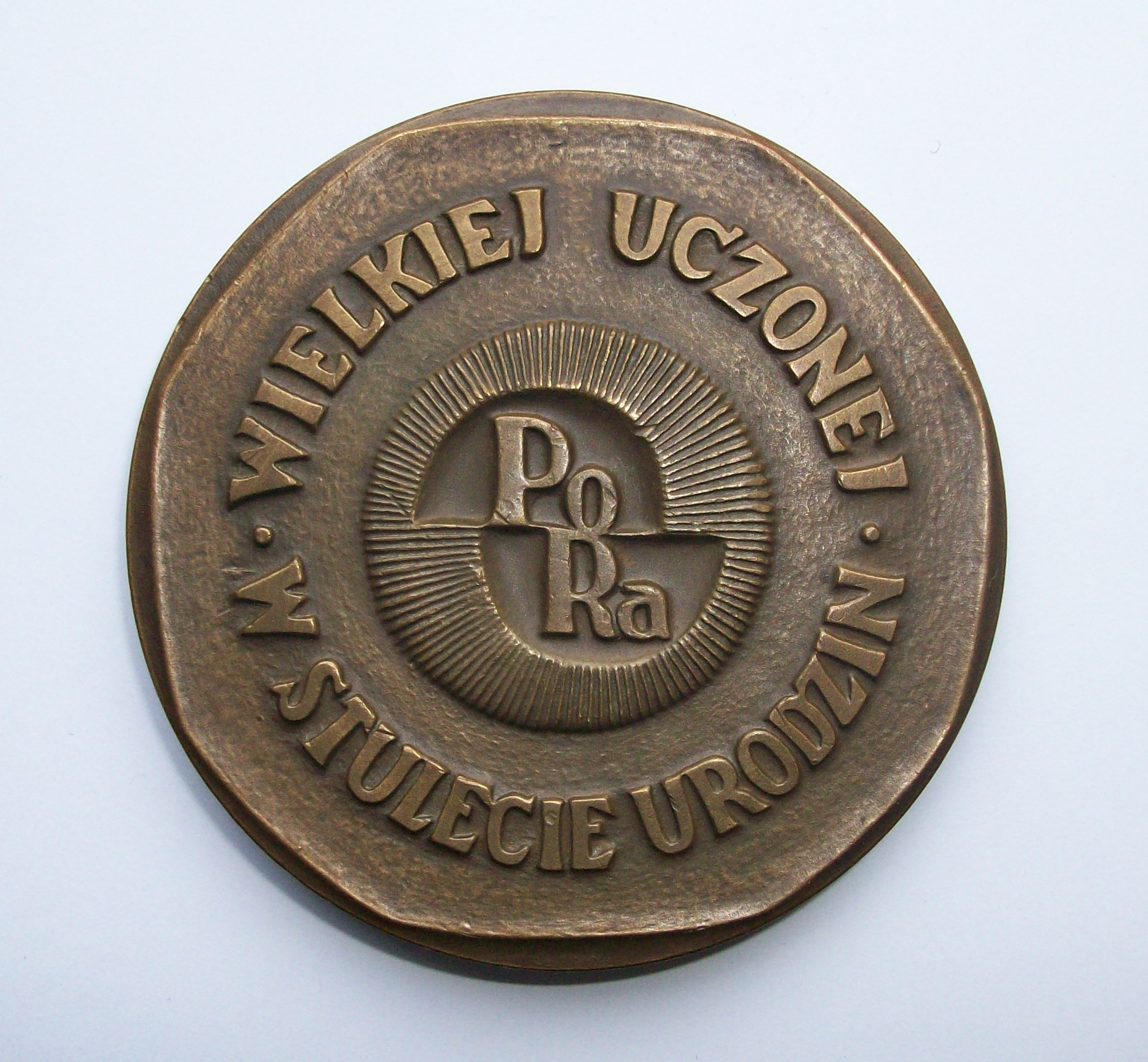 Reverse of medal with Maria Skłodowska-Curie, made by Wanda Gosławska.